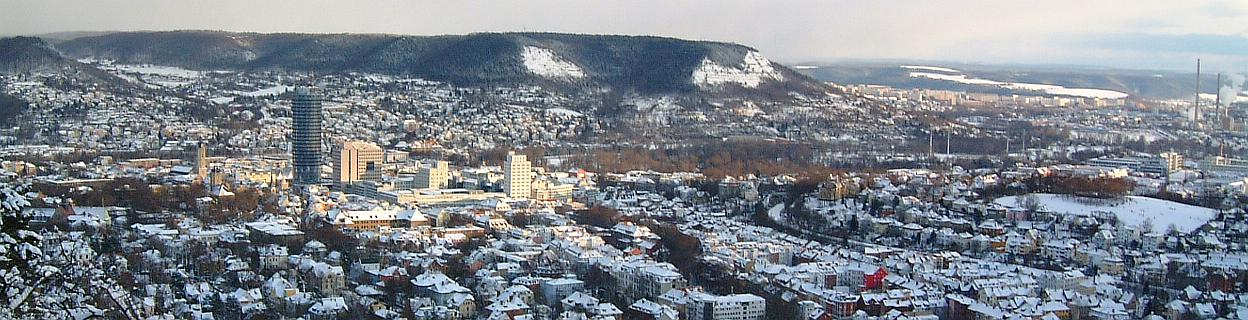 This picture is taken from the "Sonnenberge" and shows Jena, a town located in Thuringia, Germany. The ancient city with city wall and high towers are based in the center. The top of the Johannistor is on the left side of the big tower with the glassy facade, named Jen-Tower. The background on the right side shows Lobeda, a district which houses almost half of the population.